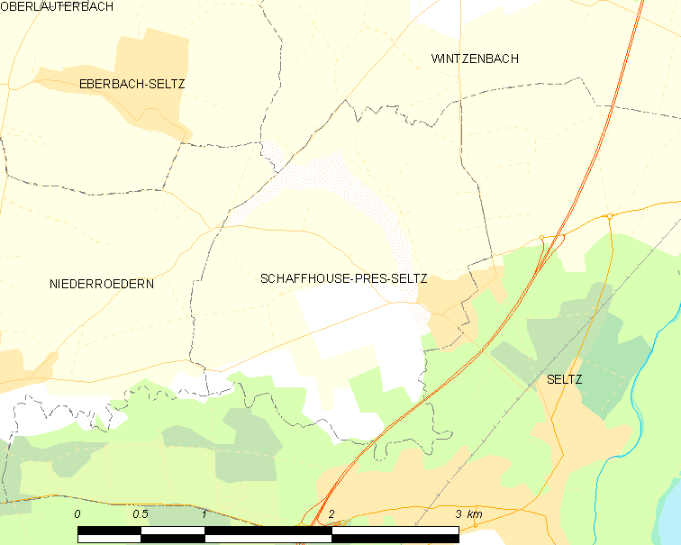 Map of French municipality